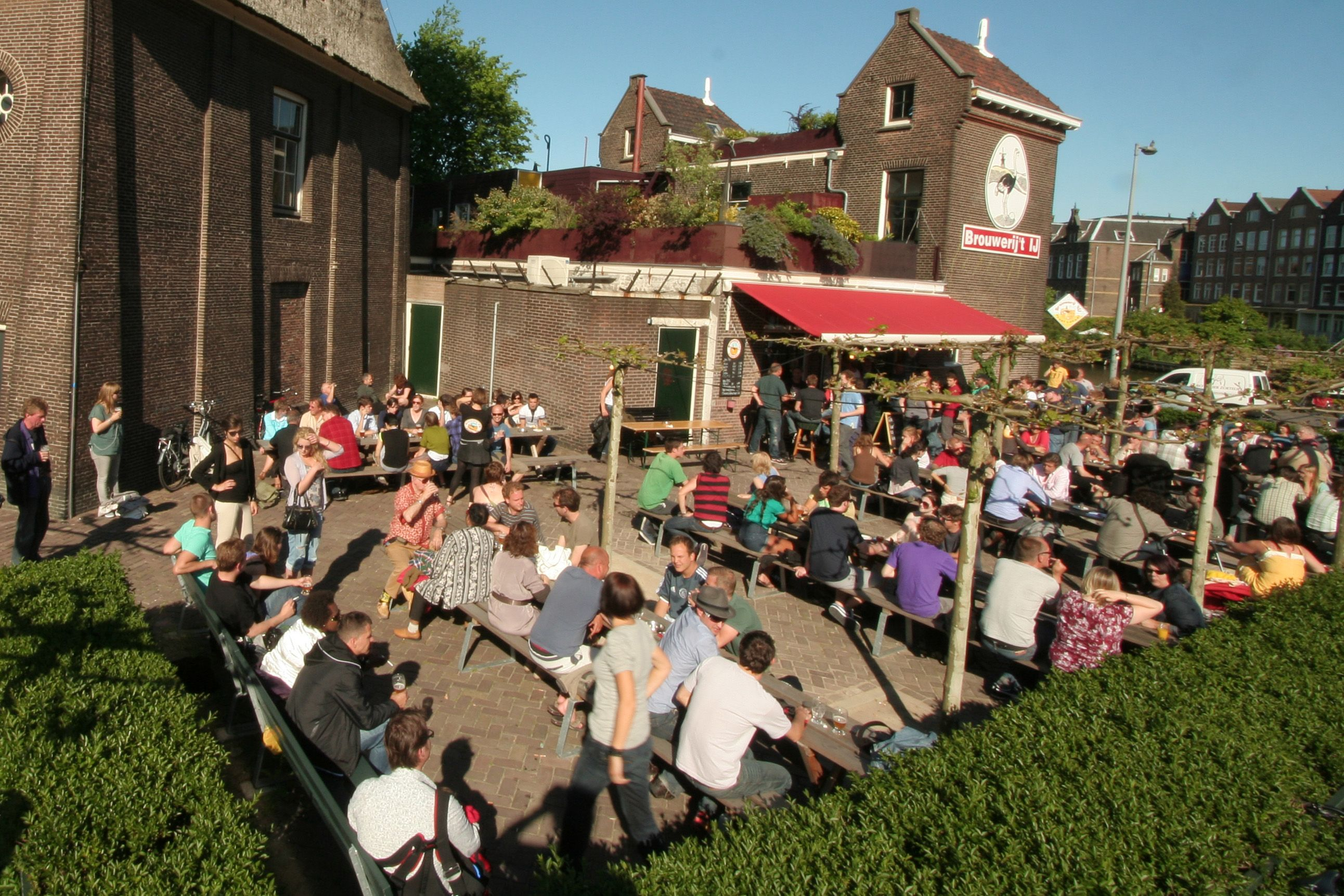 The garden of the pub of Brouwerij 't IJ